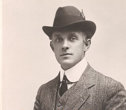 Portrait of Walter Louis Bradfield (1866-1919), English actor and singer, from a publicity postcard (detail)